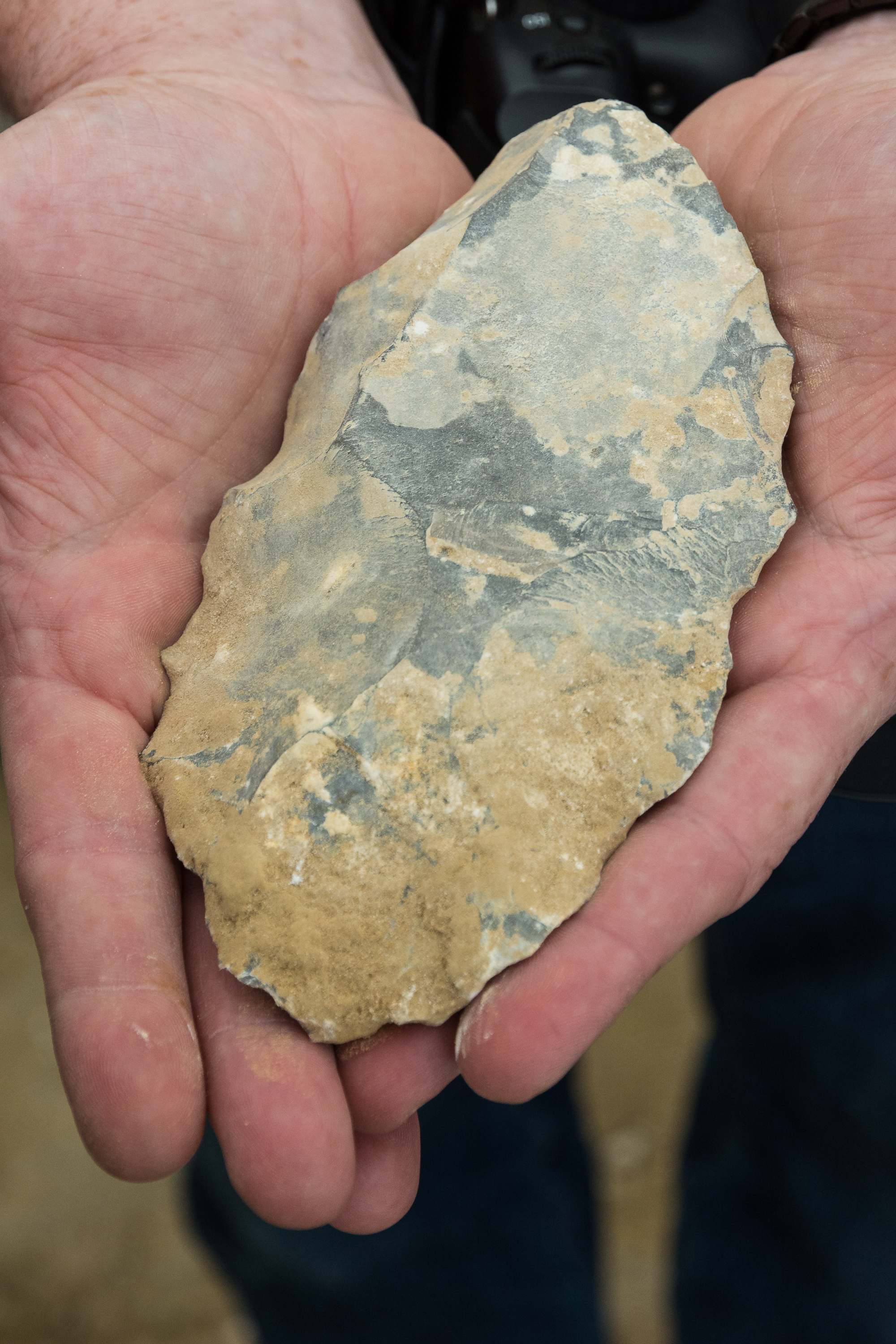 Neolithic Flint Mines at Spiennes